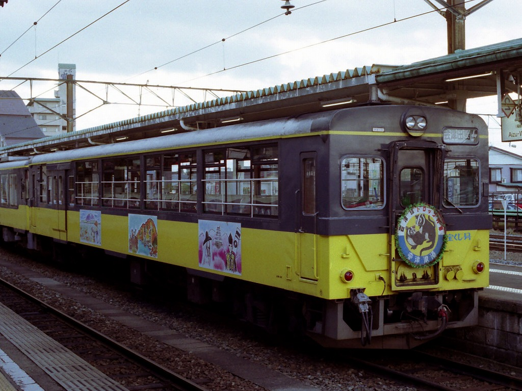 Aizu railway AT-301